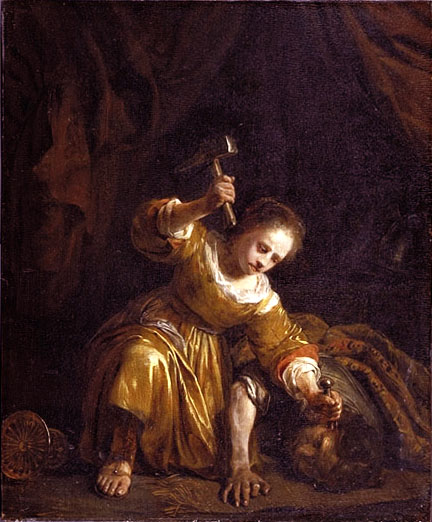 Yael and Sisera